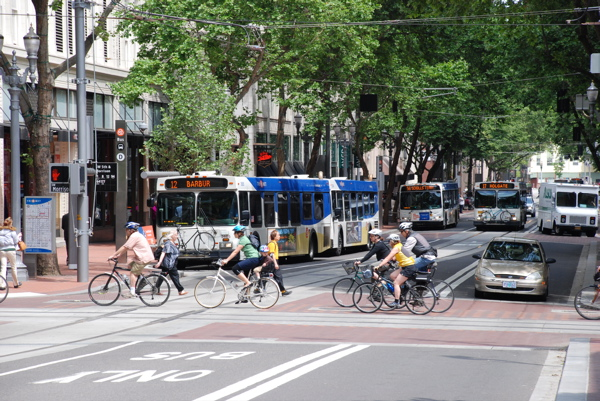 Buses on the southbound Portland Transit Mall (in Portland, Oregon), 5th Avenue, with cyclists crossing on Morrison Street. Photo was taken after MAX light rail tracks were added to the mall but before they were brought into use. Bicycles are also being carried on the fronts of the buses.